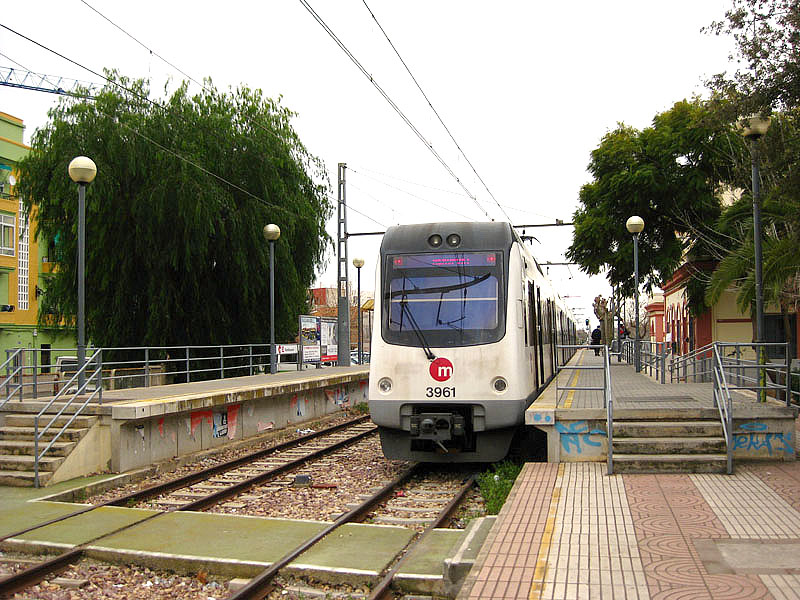 Rafelbunyol metro station, Valencian Country, Spain